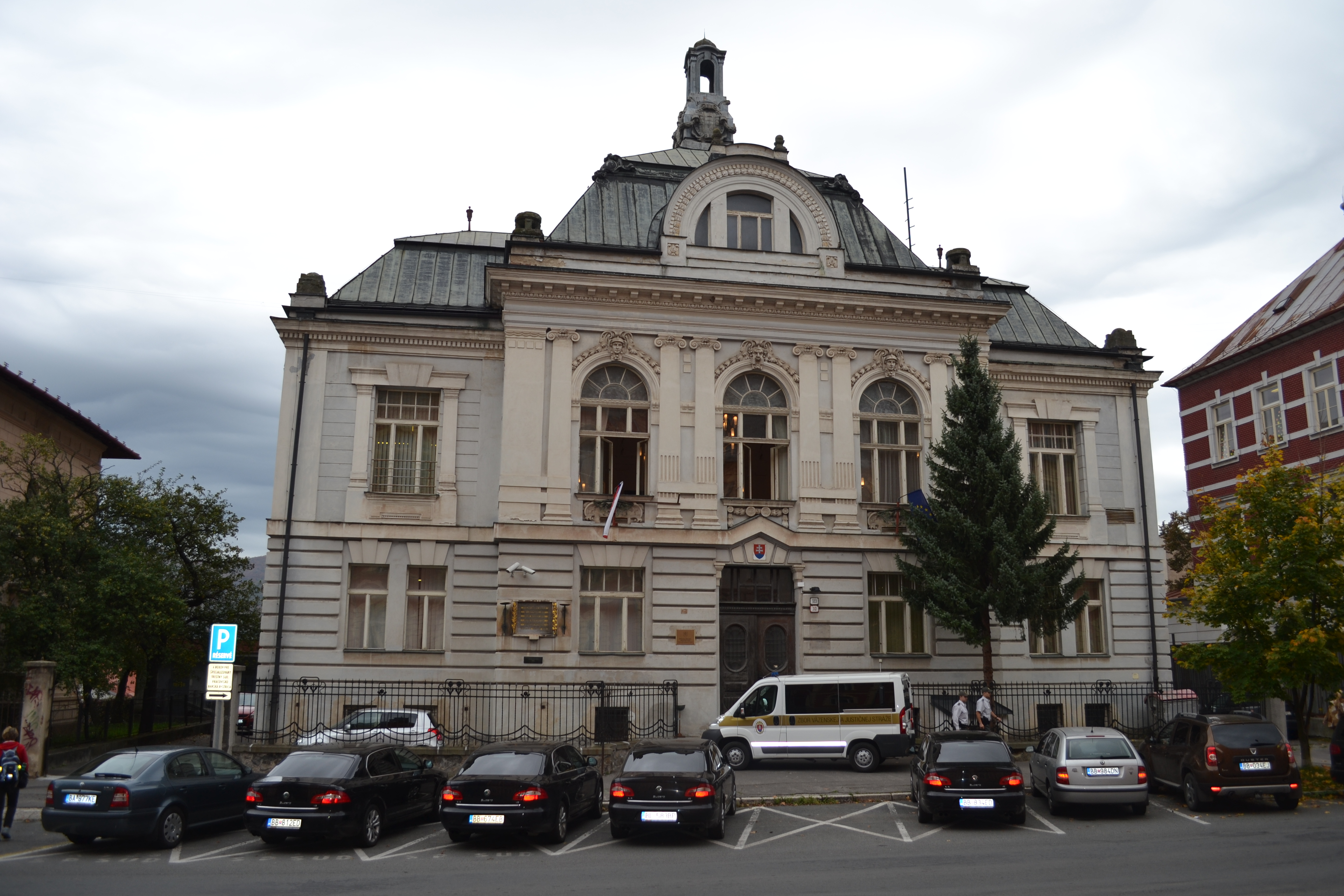 The memorial building, used to be a Chamber of Commerce, Skutecký Dominik street 10, Banská Bystrica